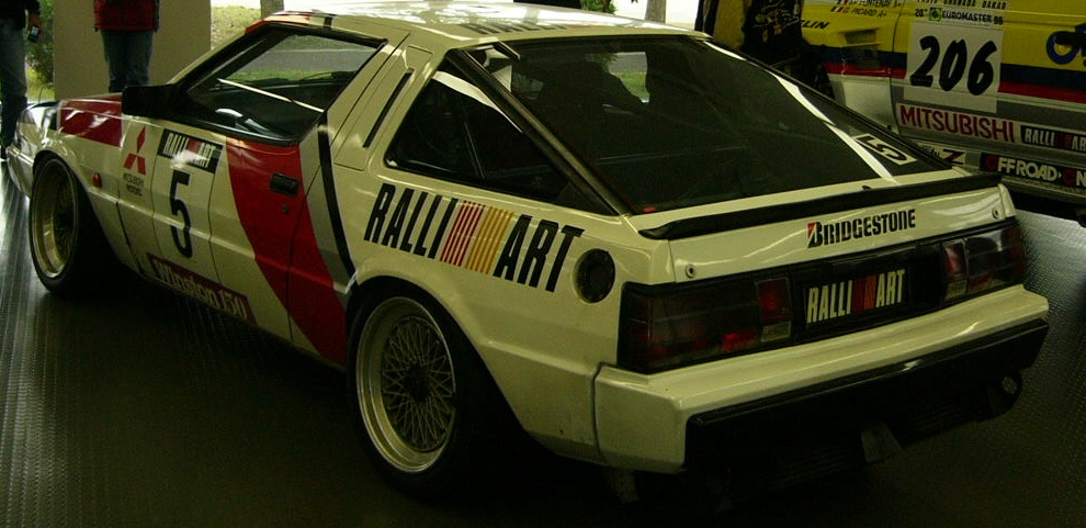 It takes a picture of Mitsubishi Starion (1987 JTC ver) of Aichi Prefecture Okazai City and a Mitsubishi Auto Gallery.